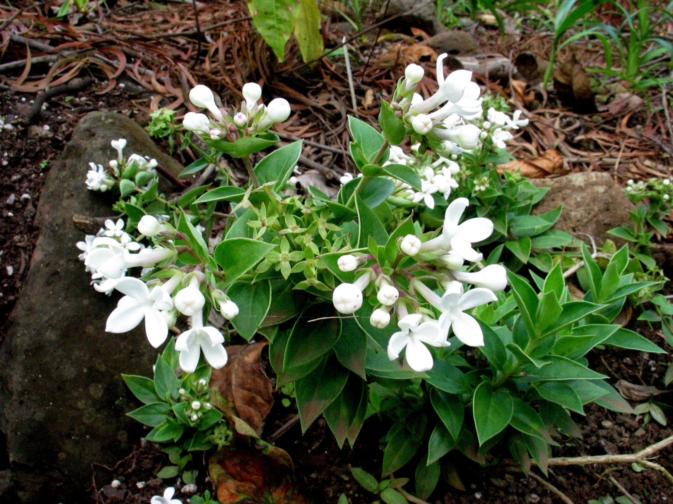 [syn. Hedyotis parvula] Rubiaceae Endemic to the Hawaiian islands Endangered Oʻahu (Cultivated)